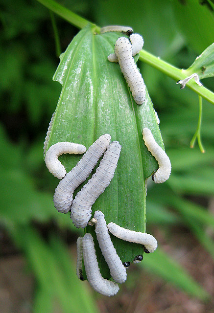 Solomon's Seal Sawfly larvae (Phymatocera aterrima) These sawfly larvae can quickly defoliate the leaves of Solomon's Seal, but the plant should recover and return the following year.